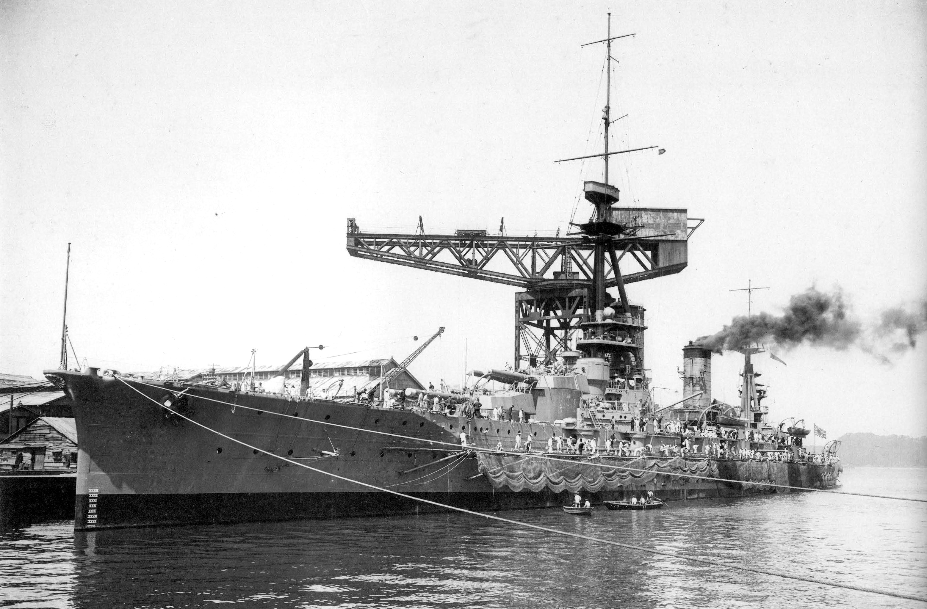 Imperial Japanese Navy battlecruiser Yamashiro's crew tests the ship's torpedo defense net at Yokosuka, Japan.